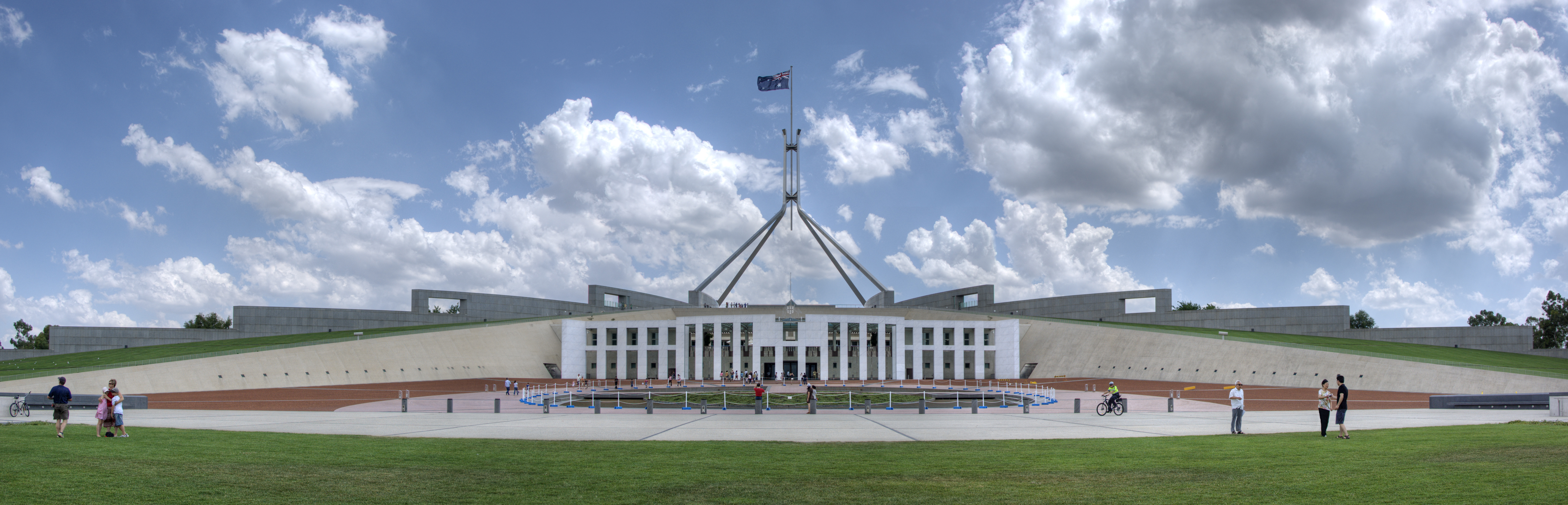 Parliament_House_Canberra